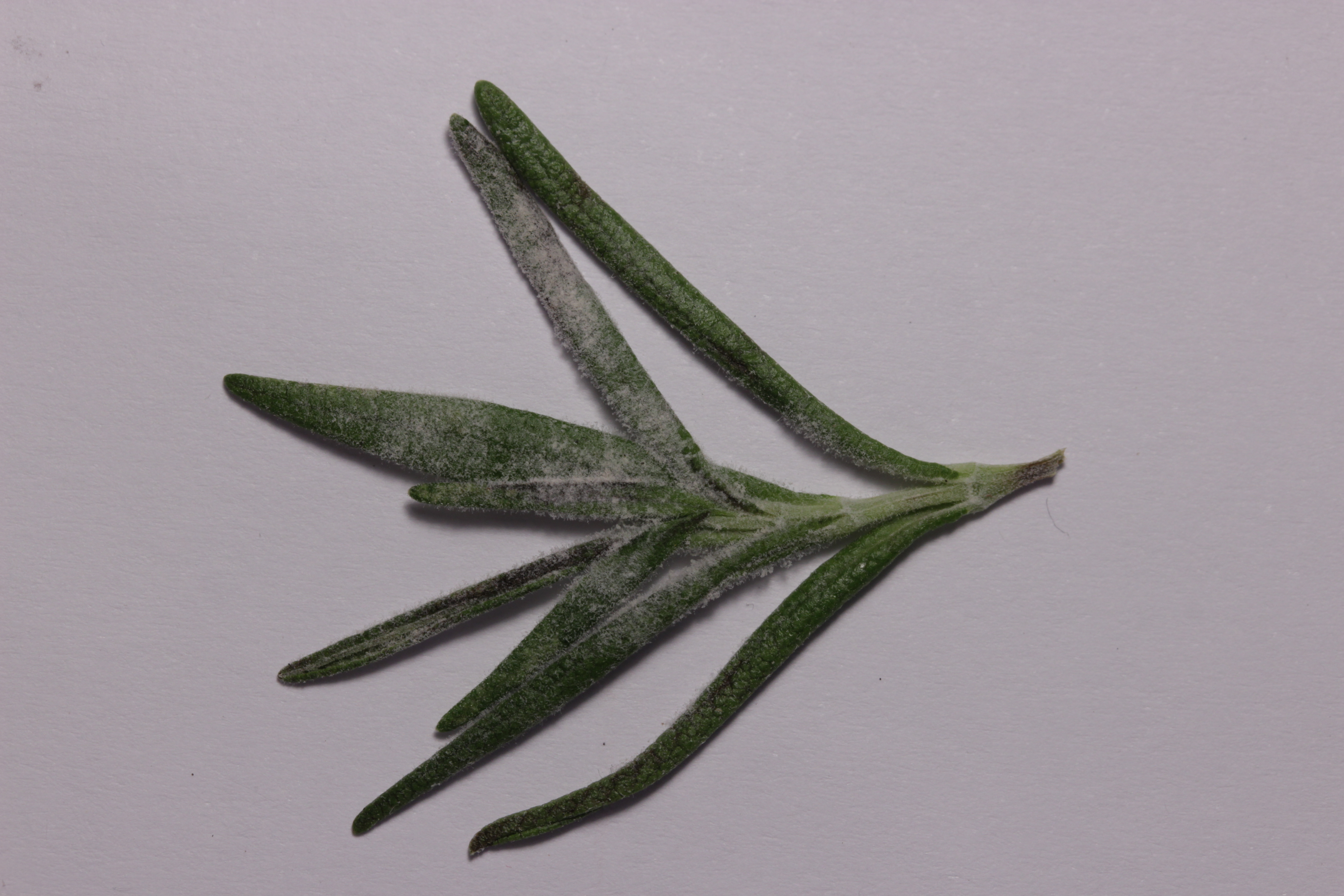 Neoërysiphe galeopsidis on Rosemary - Rosmarinus officinalis